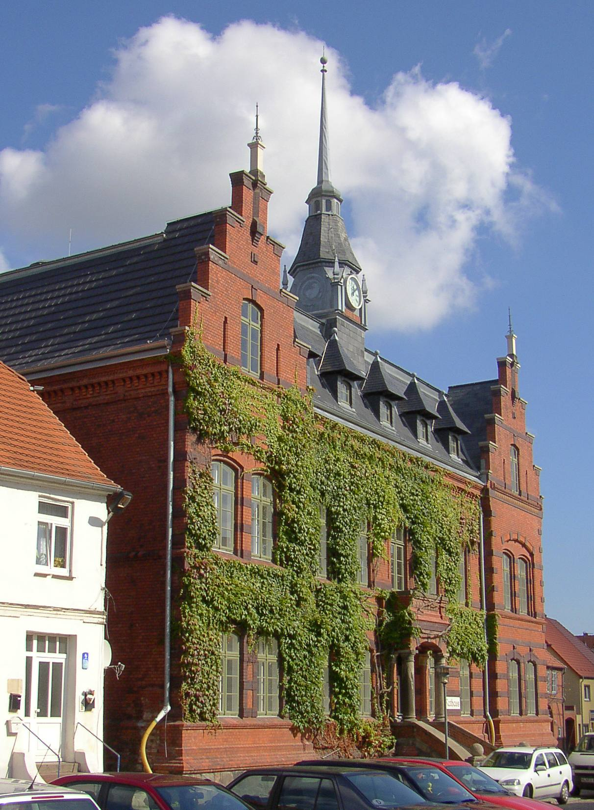 Town hall in Plau am See in Mecklenburg-Western Pomerania, Germany